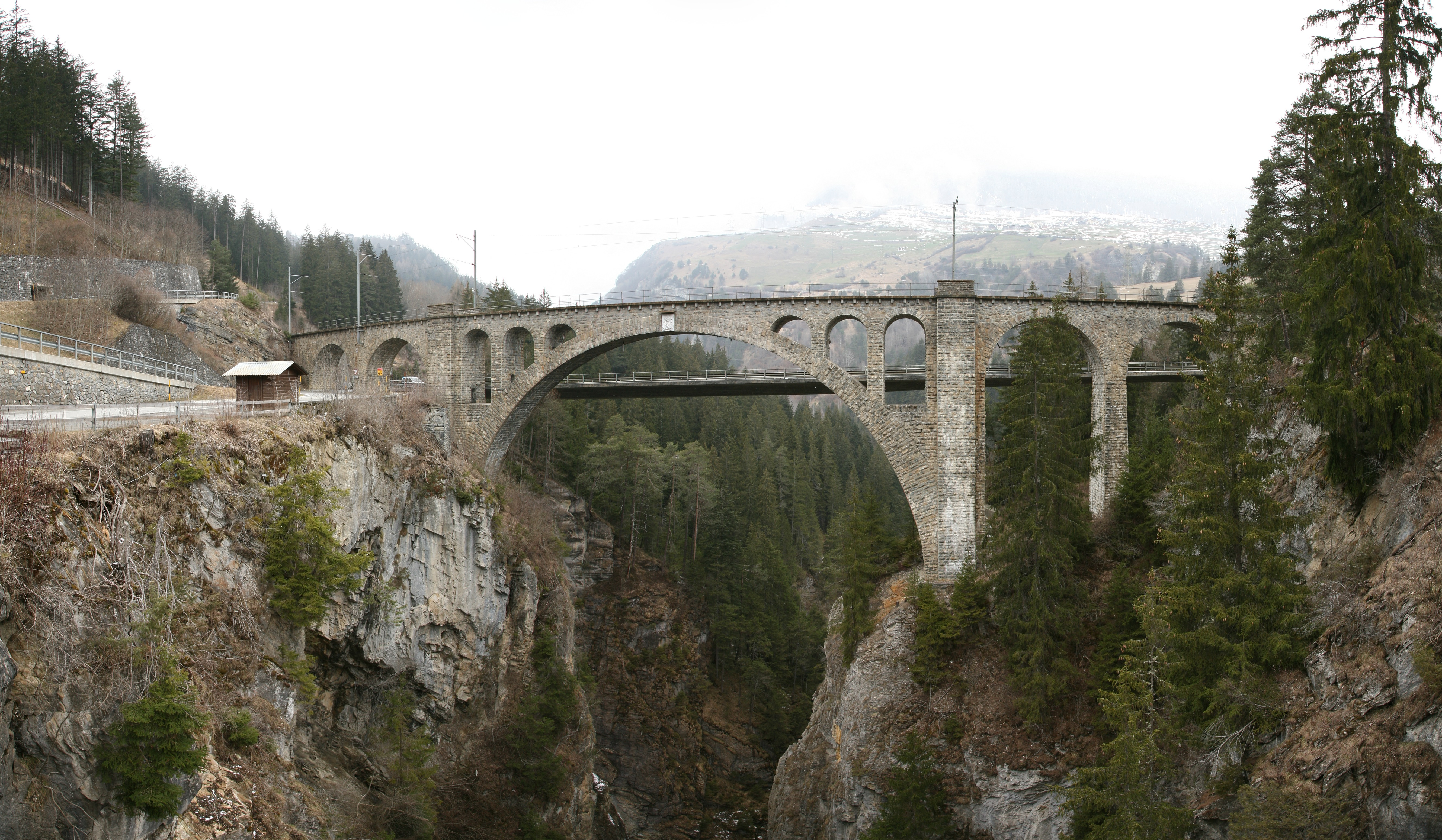 Solis Bridge, Switzerland